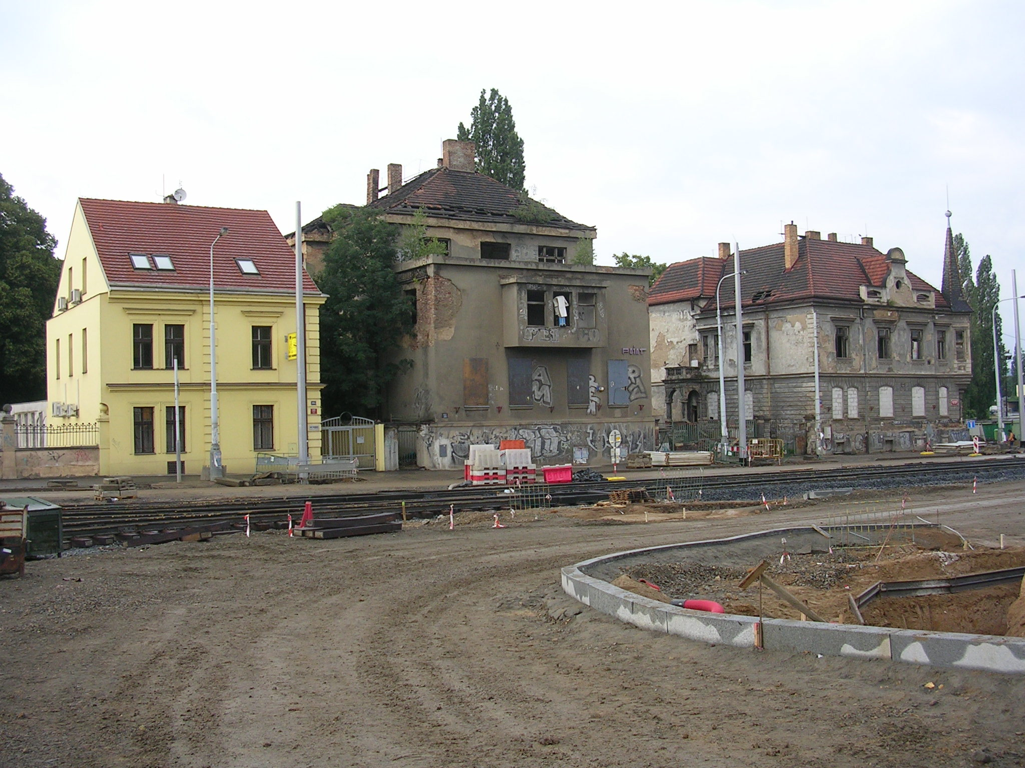 Letná, Prague, the Czech Republic. Reconstruction of tram track at Letná and the tram track loop Špejchar. - Google Maps - Google Earth